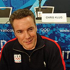 US parallel giant slalom snowboarder Chris Klug at the 2010 Winter Olympics.